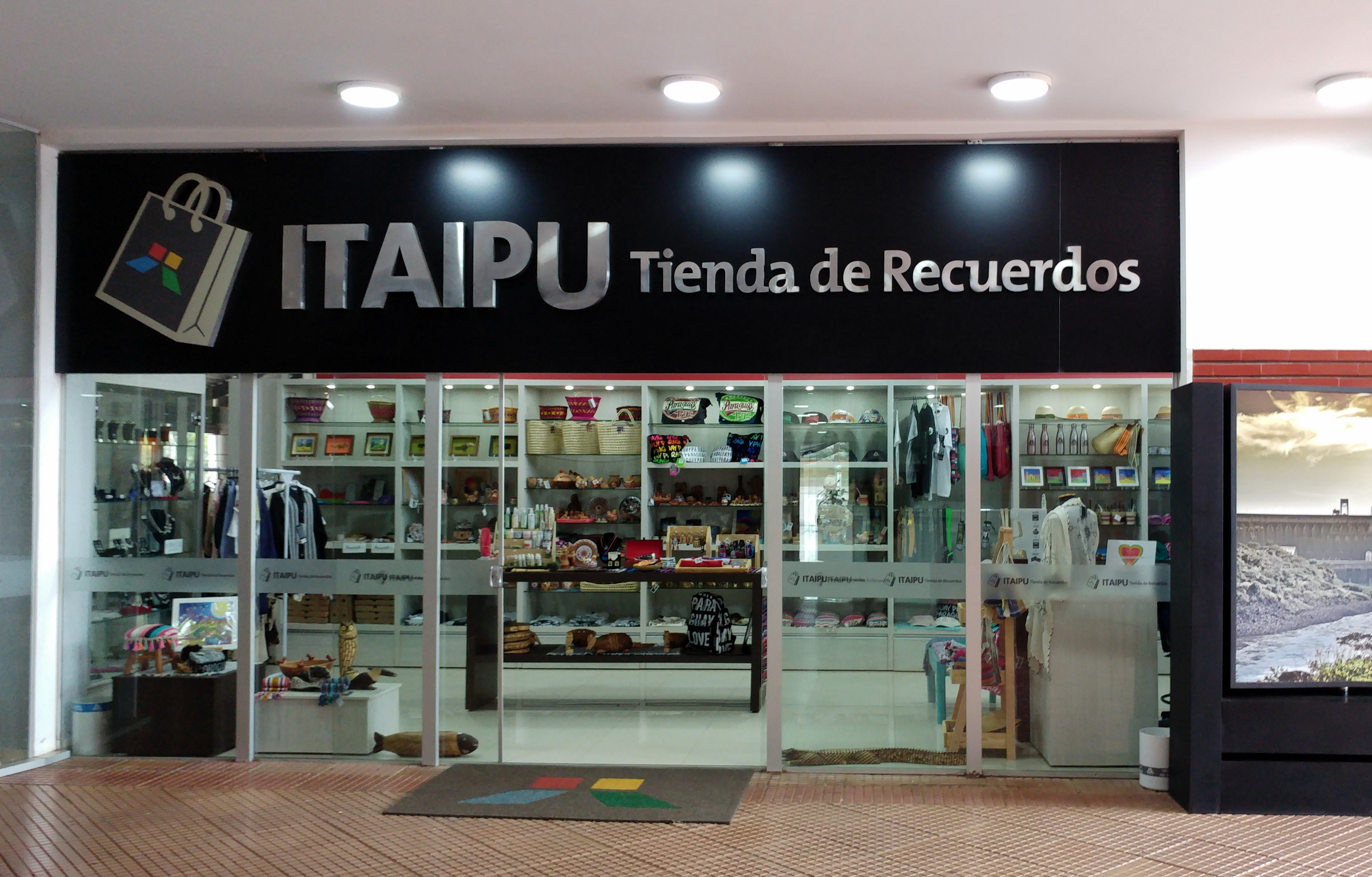 Gift shop in Itaipu paraguayan side